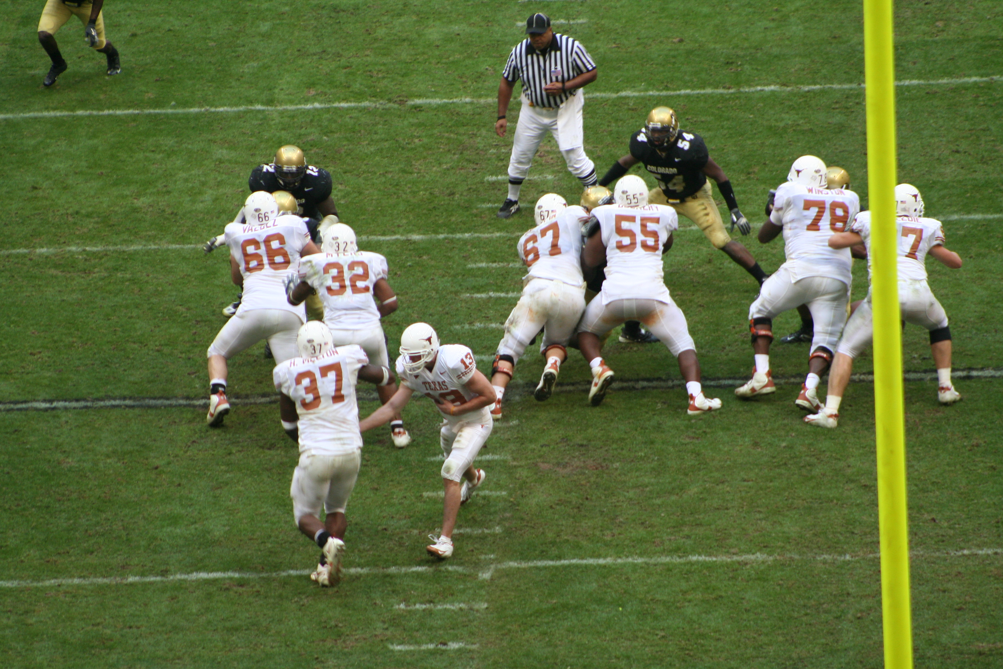 2005 Texas Longhorn football team playing University of Colorado in the Big 12 Conference college football game - McCoy hands off to Melton. Photo by Johntex 2005.